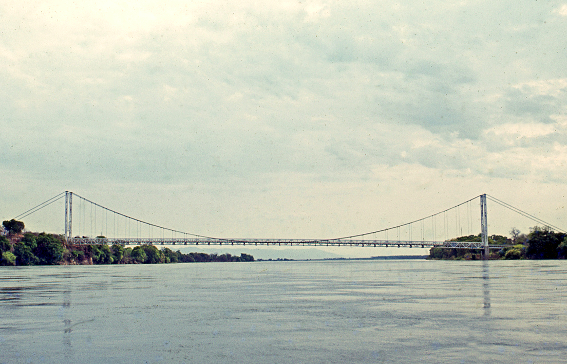 The Otto Beit Bridge (Chirundu Bridge) over the Zambezi River between Zambia and Zimbabwe